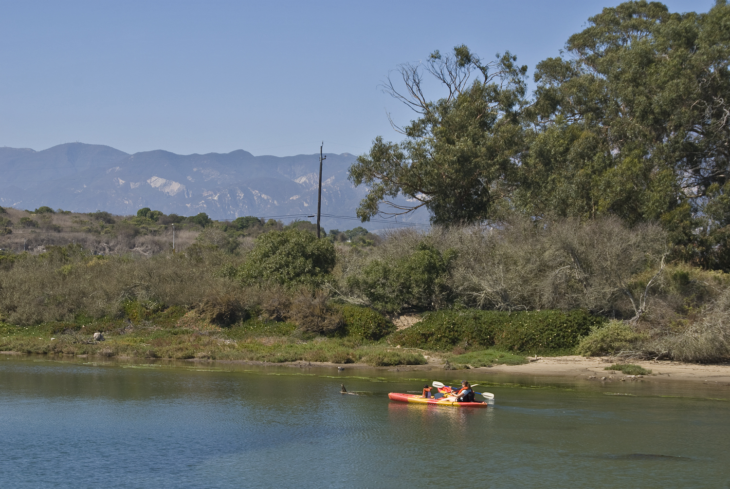 Goleta Slough in Santa Barbara County, California.